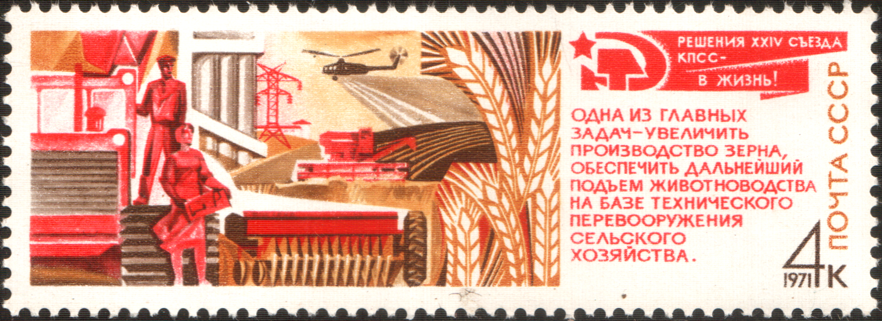 USSR stampː Farmworkers and Wheatfield ("Agricultural Production"). Seriesː 24th Communist Party of the Soviet Union Congress Resolutions